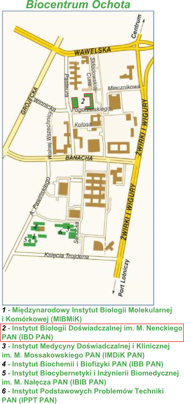 Ochota Biocenter (Warsaw, Poland) map with Nencki Institute of Experimental Biology marked in red.